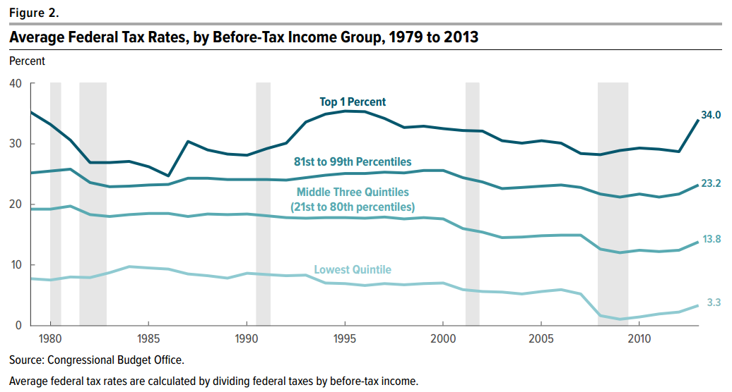 December 2013 Chart from the US Congressional Budget Office depicting tax rates by income group from 1979 to 2010, and implications for tax rates based on 2013 law.